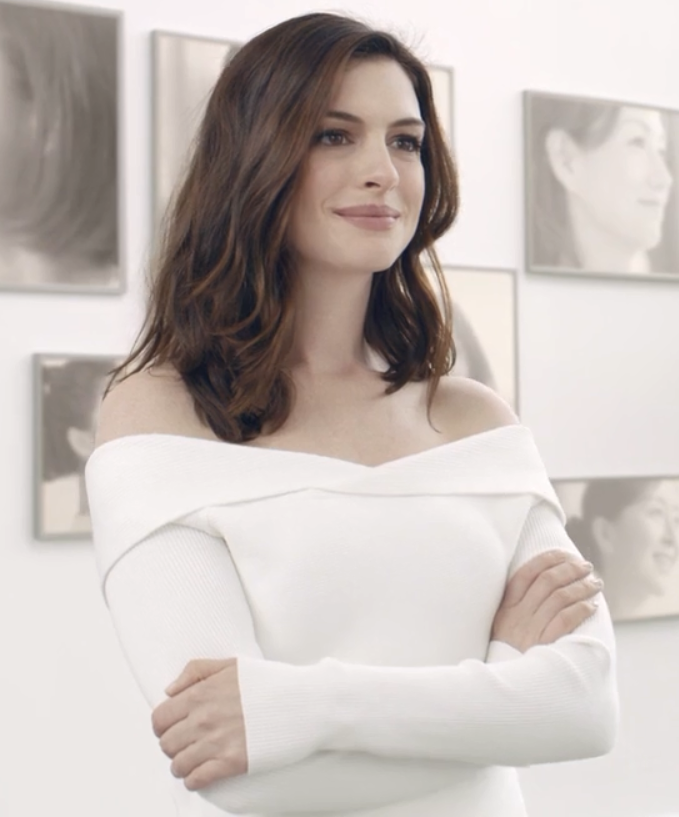 Anne Hathaway for an AHC campain in 2017